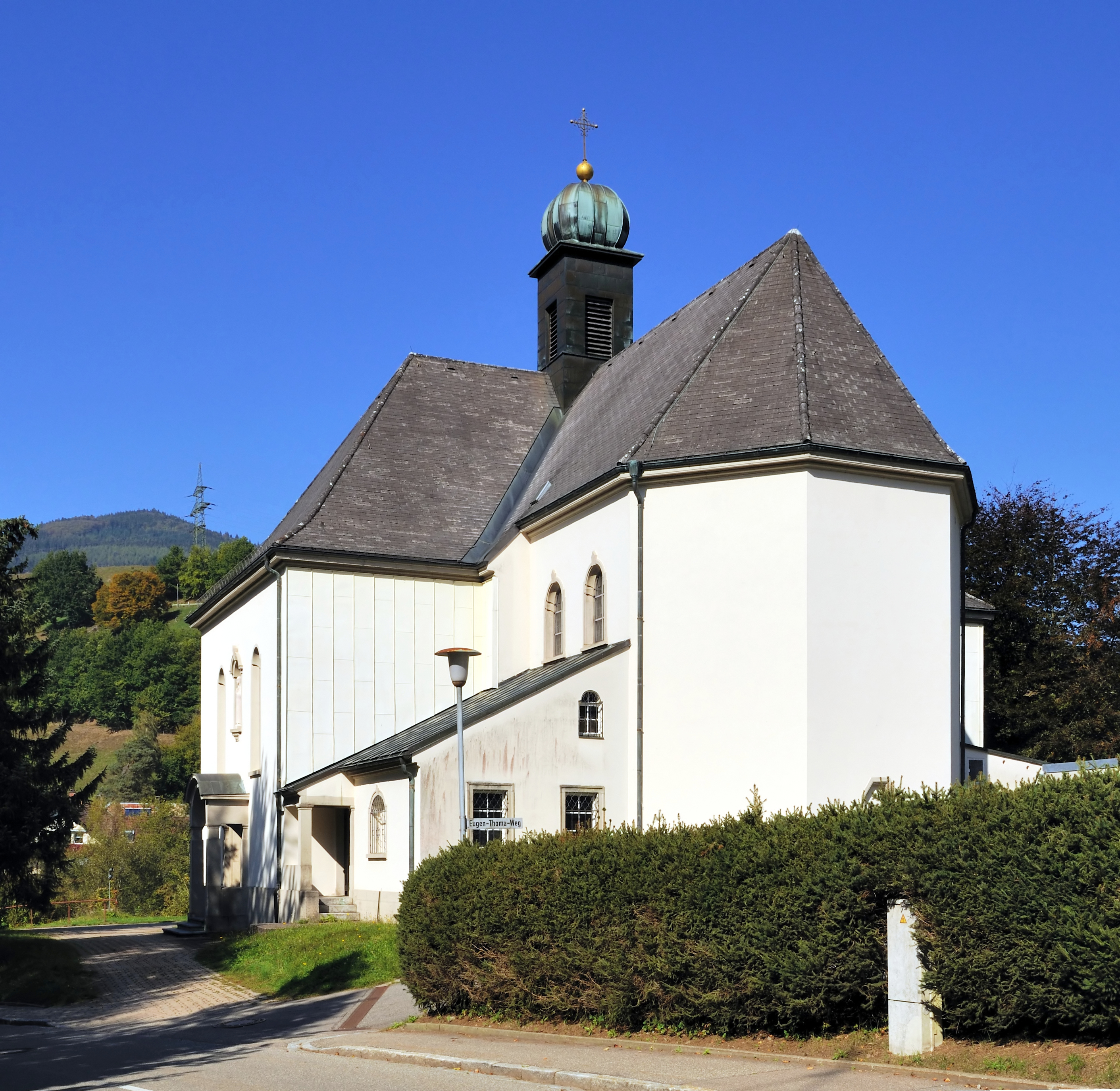 Zell im Wiesental: Church of the Assumption in Atzenbach